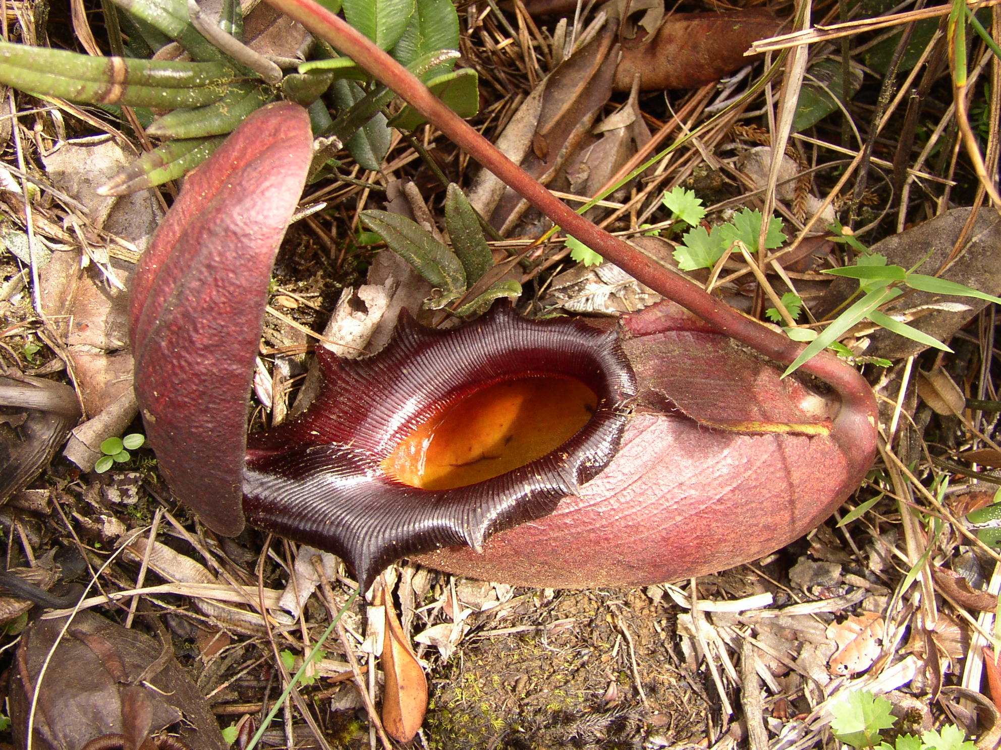 Nepenthes rajah